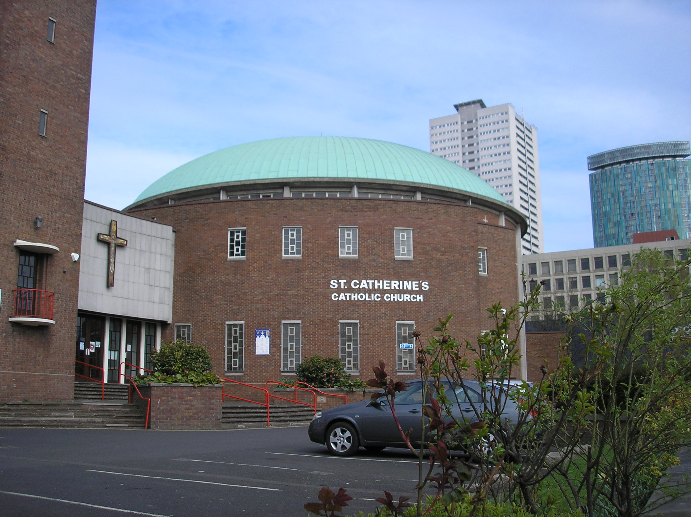 Photo of church in Bristol Street, Birmingham